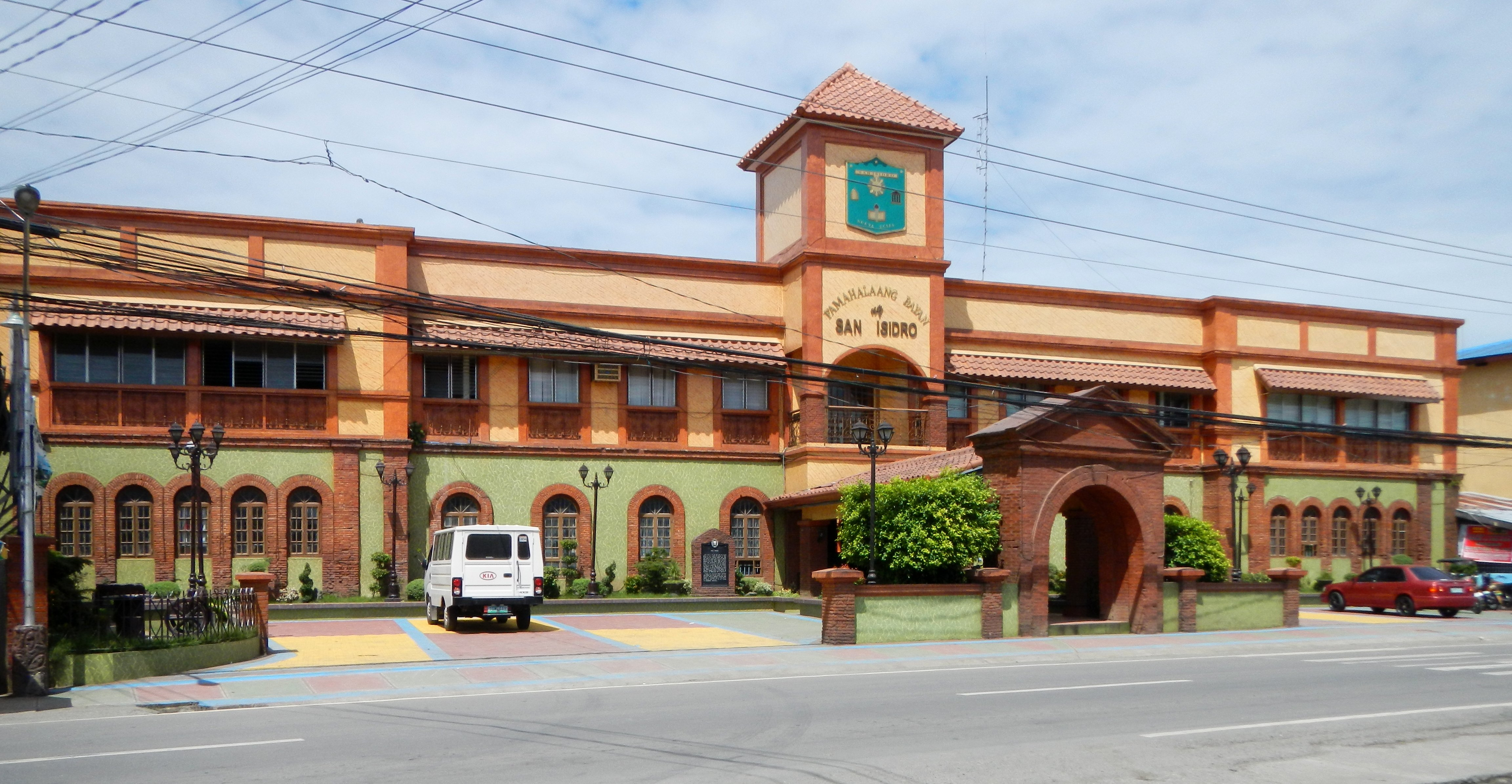 Facade, Town hall, San Isidro, Nueva Ecija[1]